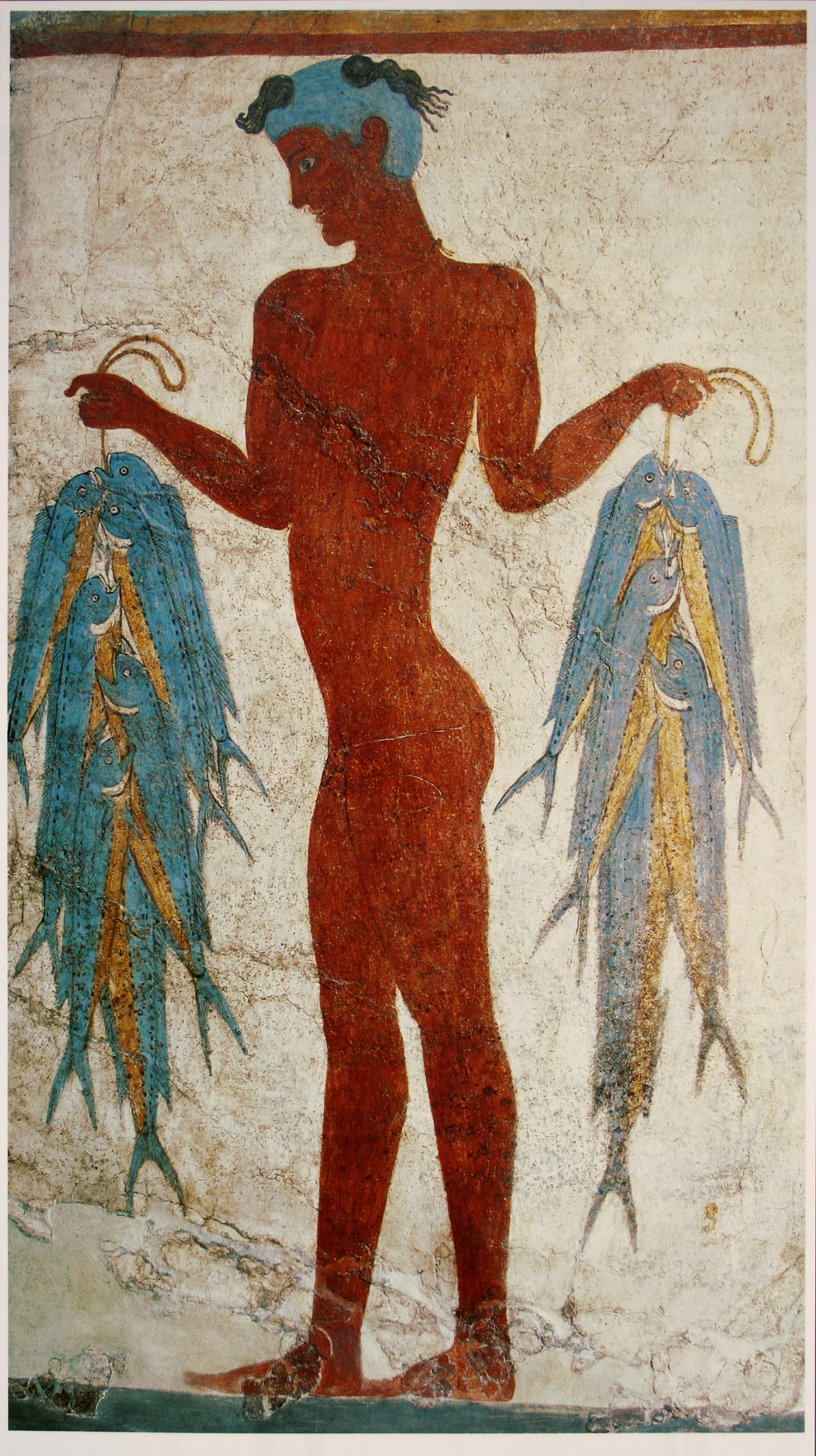 Fresco of a fisherman, Akrotiri, Santorini, Greece. Height: 1.10 m